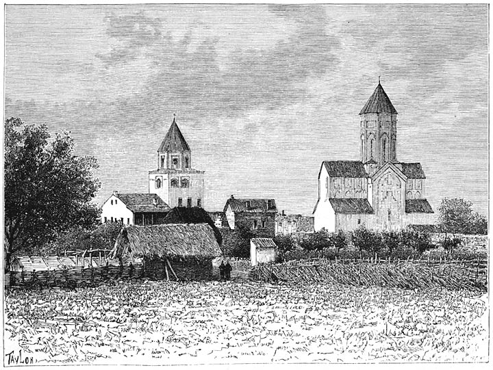 Shemokmedi Cathedral, Georgia